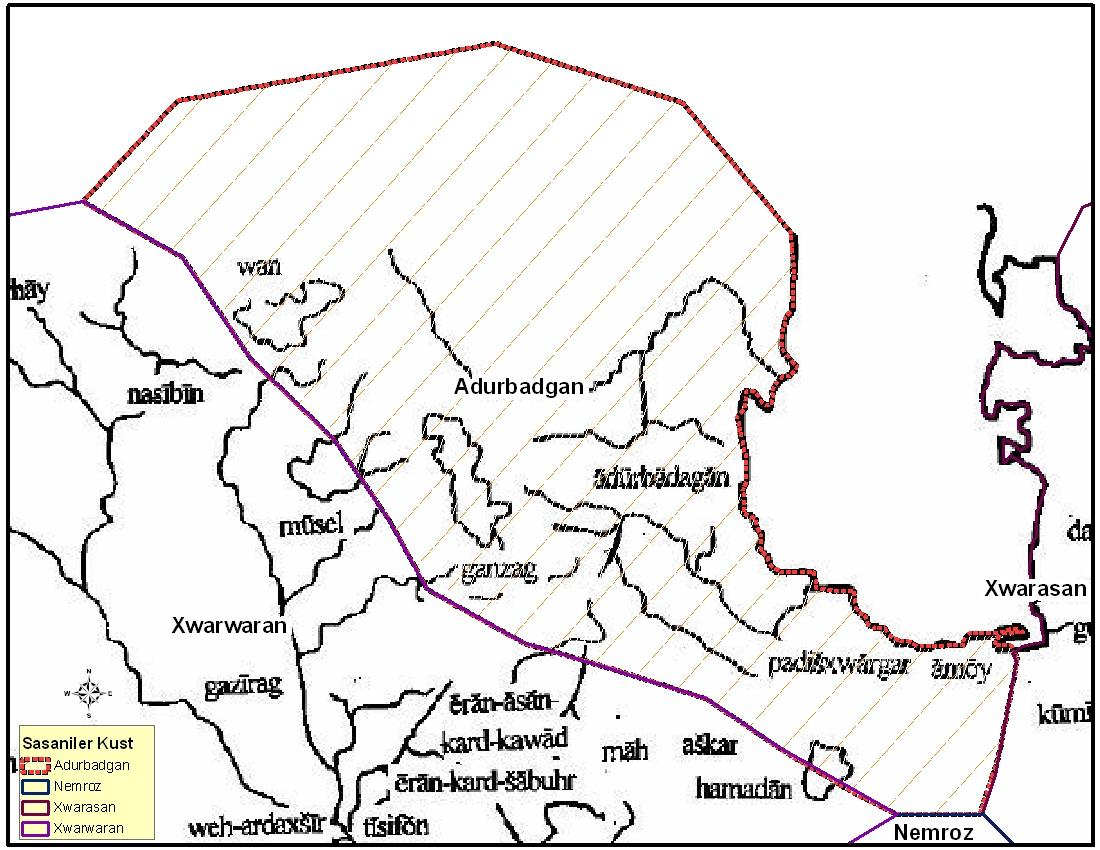 Based on: 1-Šahrestānīhā-ī Ērānšahr : a Middle Persian text on late antique geography, epic, and history : with English and Persian translations, Author: Touraj Daryaee, Publisher: Costa Mesa, Calif. : Mazda Publishers, 2002. 2-شهرستانهای ایران (7 صفحه - از 169 تا 175) مجلات : هنر » مهر » آذر 1321 - شماره 73 » مترجم:هدایت، صادق 3-شهرستانهاي ايران احمد تفضلي (برگرفته از: شهرهاي ايران، ج2، به كوشش محمديوسف كياني، جهاد دانشگاهي، سال 1366)